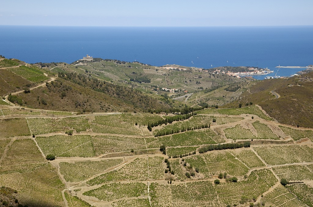 View from the Madeloc Tower